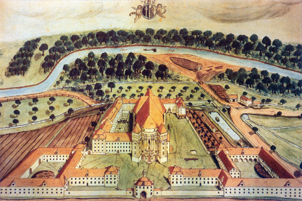 The Benedictine Abbey of Wiblingen, 1805 (1813 colorized version). The abbey was secularized in 1806.